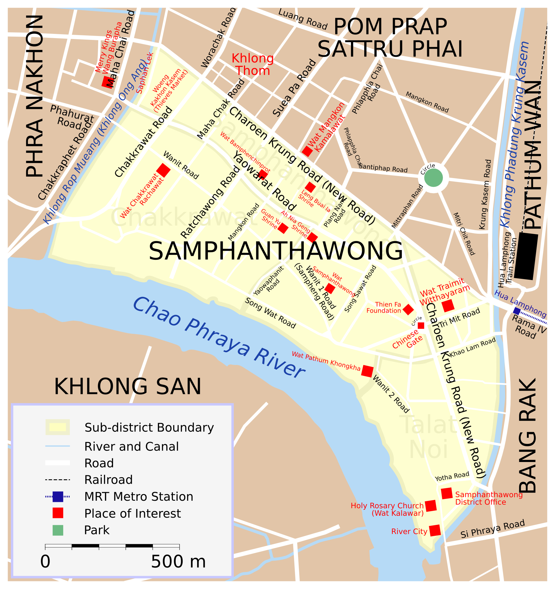 Map of Samphanthawong District, Bangkok.